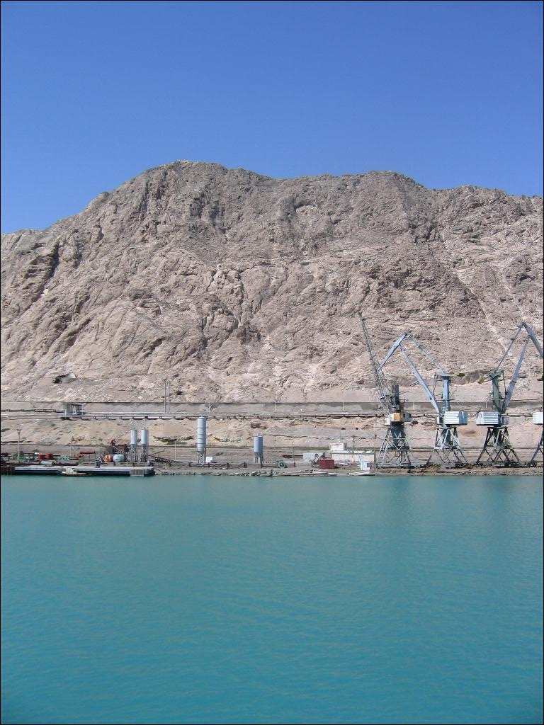 Port of Turkmenbashi, Turkmenistan